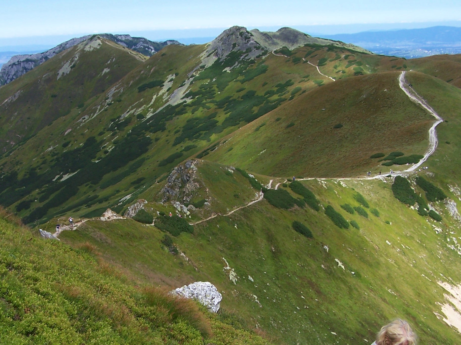 Ornak (West Tatra Mountains)